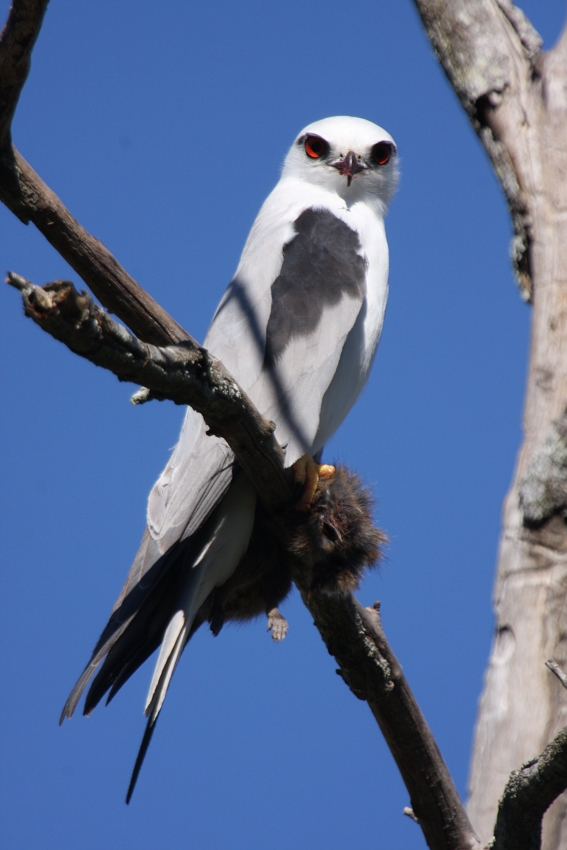 Black-shouldered Kite (Elanus axillaris) Samsonvale Cemetery, SE Queensland, Australia